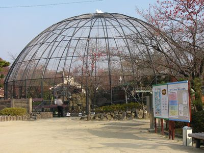 "大水禽舎" is the big birds cage at Kyoto Zoo in Kyoto,Japan.